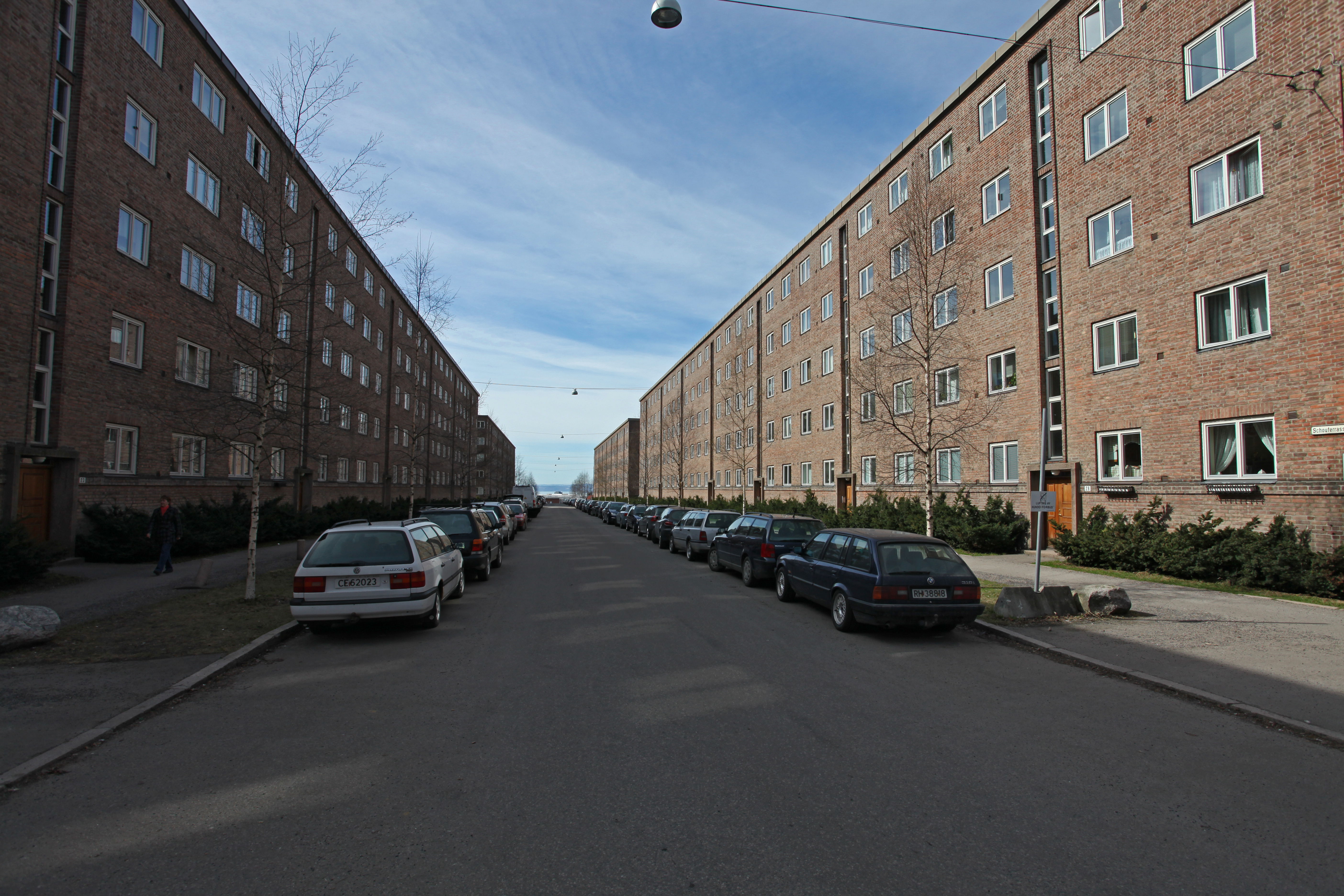 Picture of Schouterrassen (Oslo - Norway)